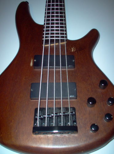 Picture of an Ibanez soundgear 5-string bass guitar.